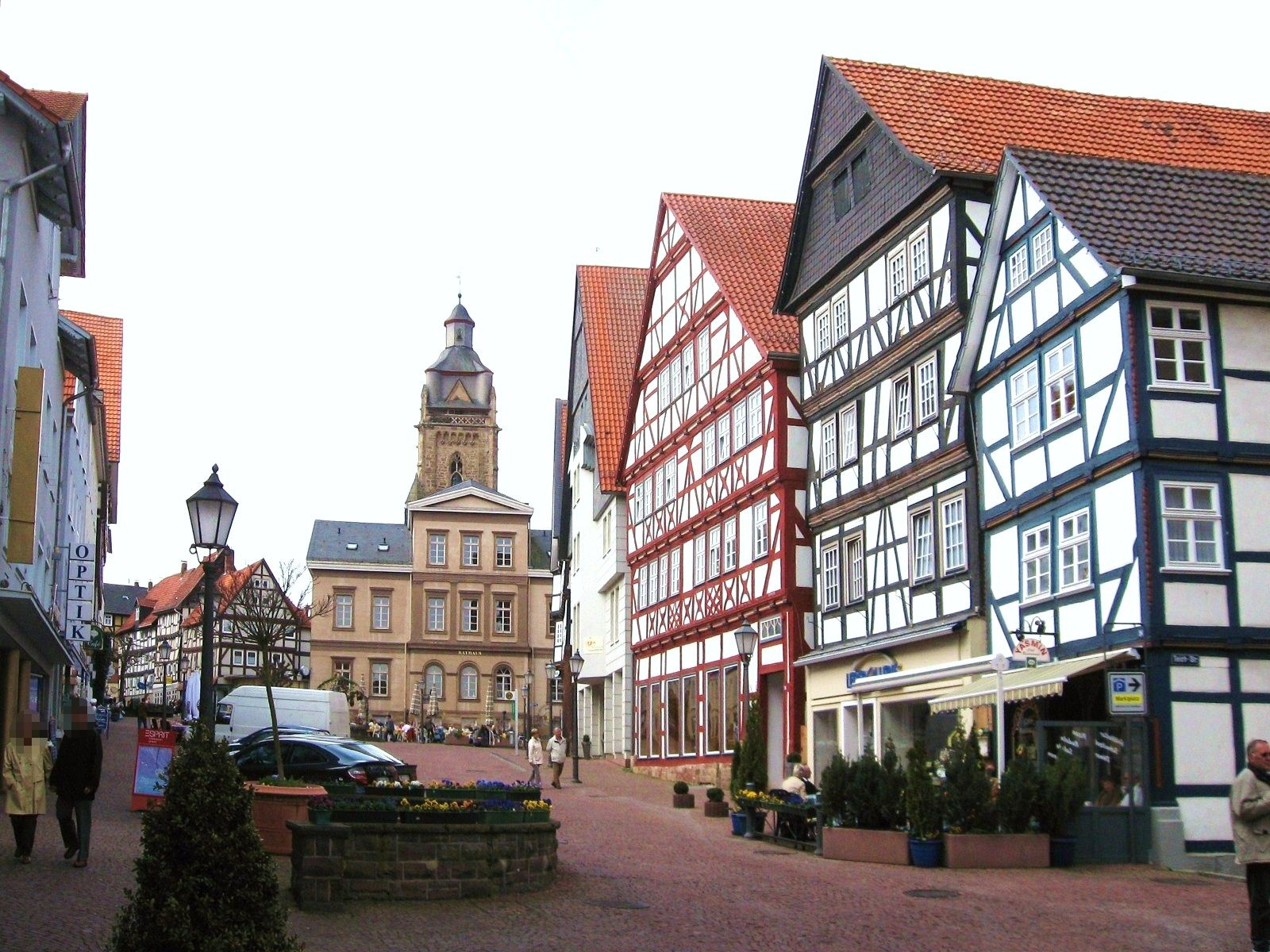 Germany / Hesse /Bad Wildungen: half-timbered houses in the historic center